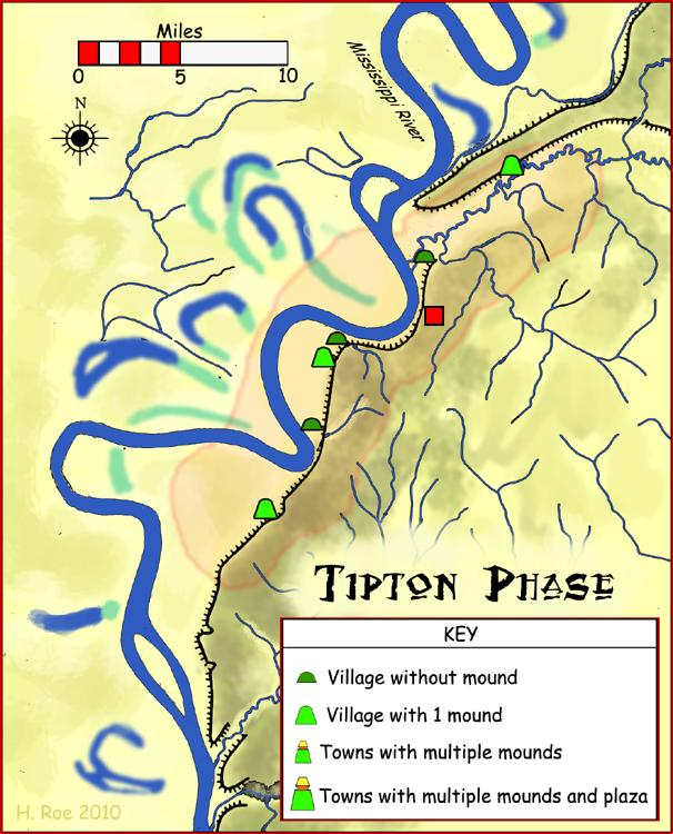 A map showing the Tipton Phase, a Mississippian cultural component, and its associated sites in the region of modern day Tipton, Lauderdale and Shelby Counties during the time of first contact with Europeans, at the arrival of the Hernando de Soto Expedition.